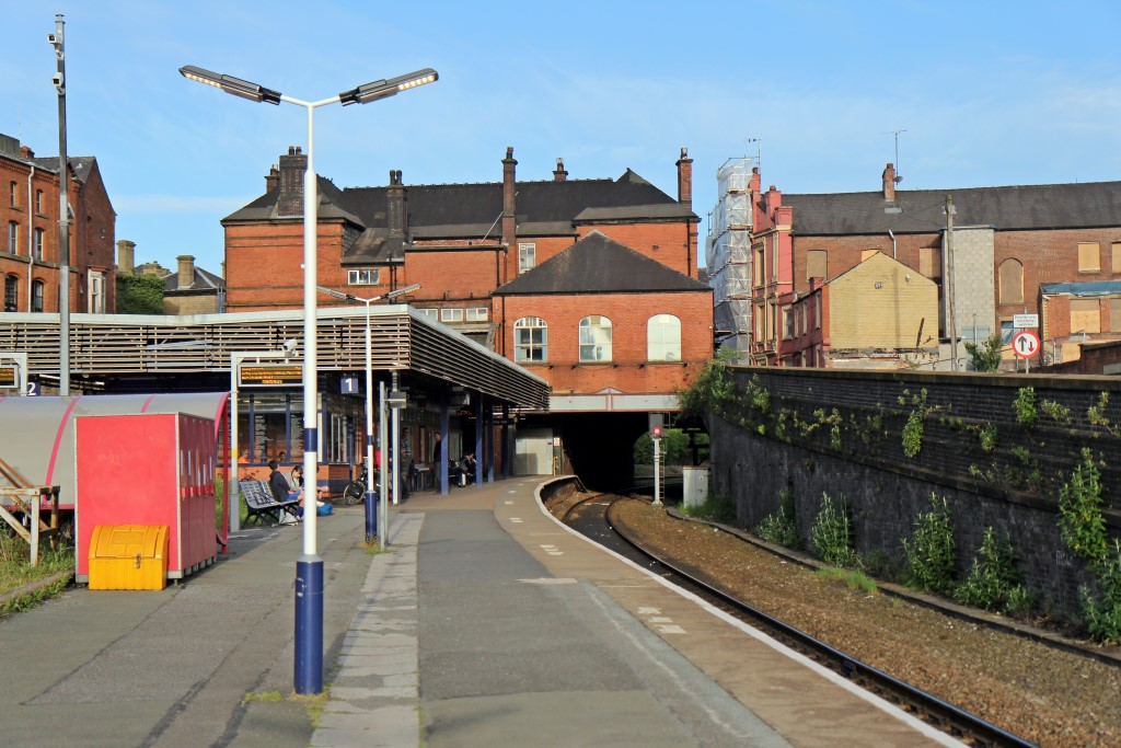 Along platform 1, Wigan Wallgate railway station